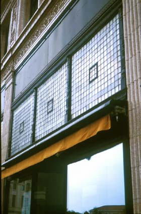 Prismatic glass that has undergone some repair and reproduction to recreate a historic transom window.